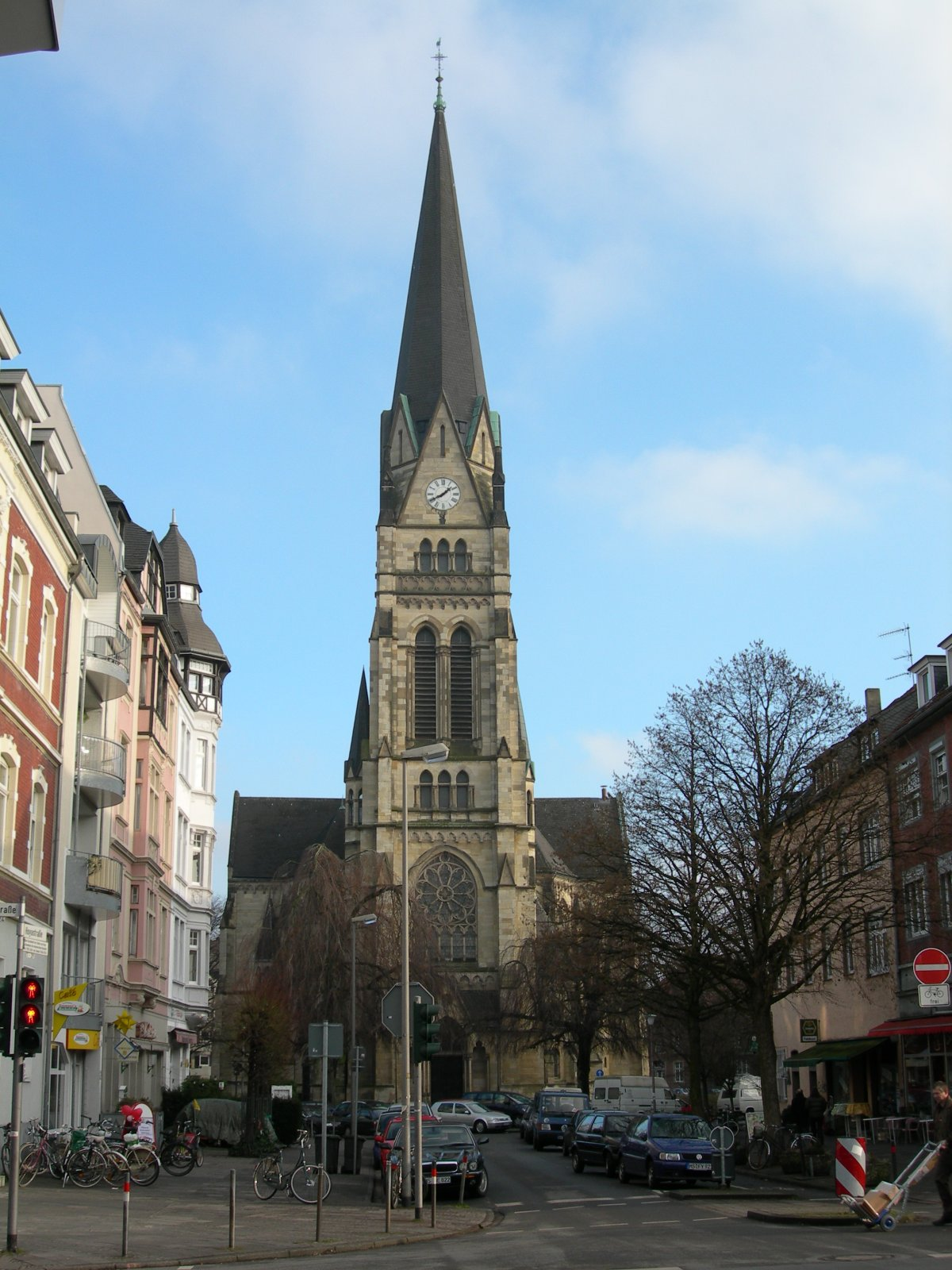 Picture of the Heilig-Kreuz-Kirche in the city of Münster, Germany.